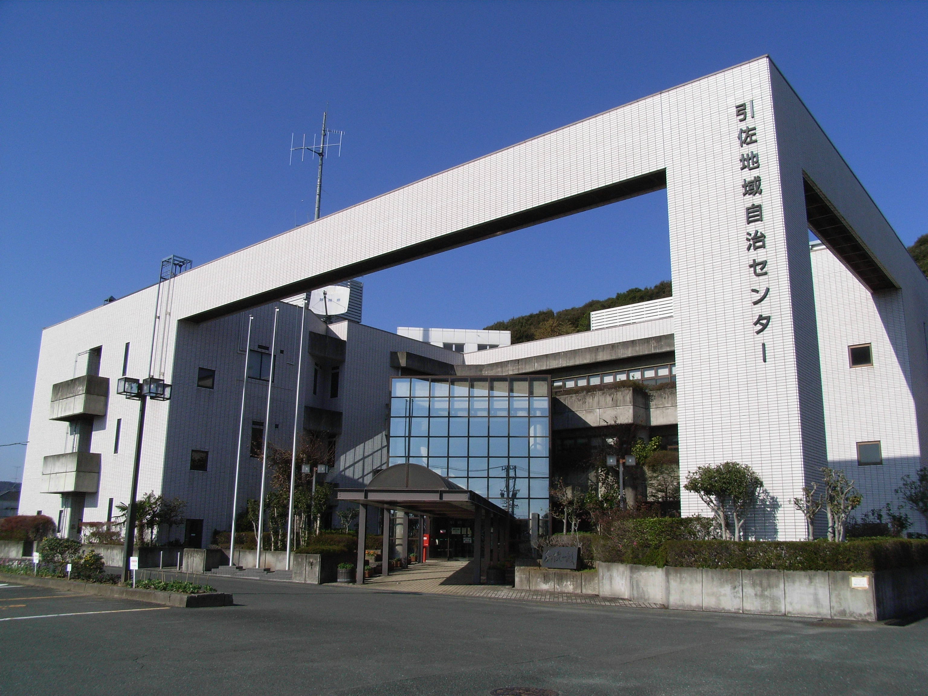 Hamamatsu City Kita Ward Office Inasa Local Service Center